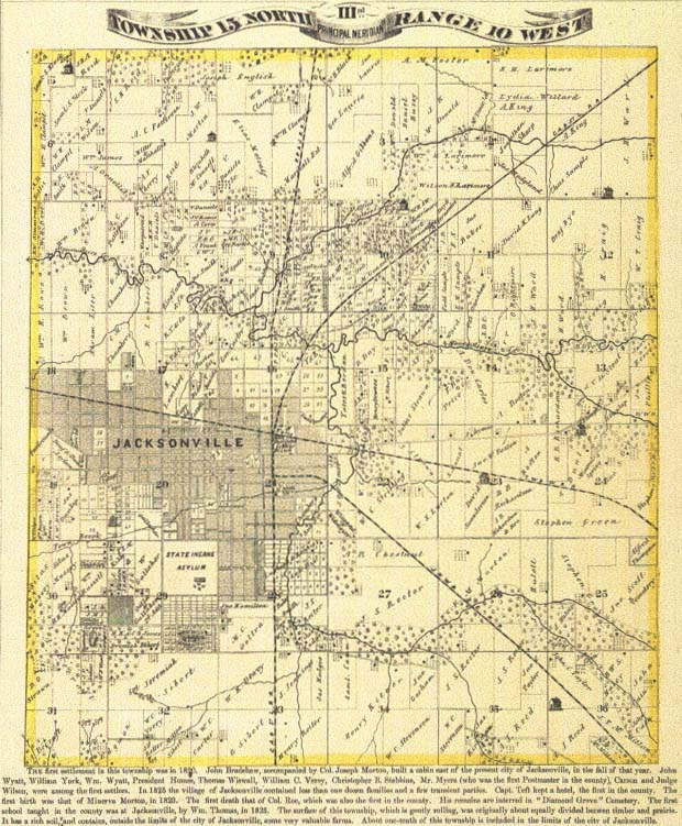 Map of Township 15 North, Range 10 West from Atlas Map of Morgan County, Illinois. Originally produced in Davenport, Iowa by Andreas, Lyter & Co. in 1872.